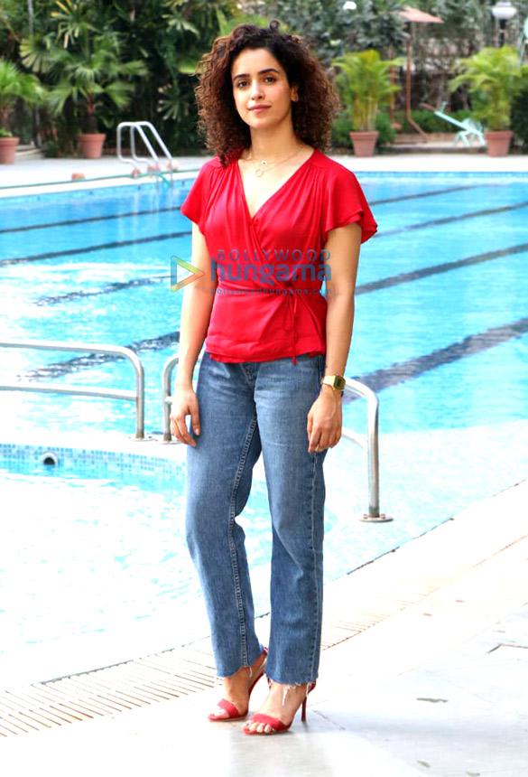 Sanya Malhotra snapped at the promotions of her film Photograph